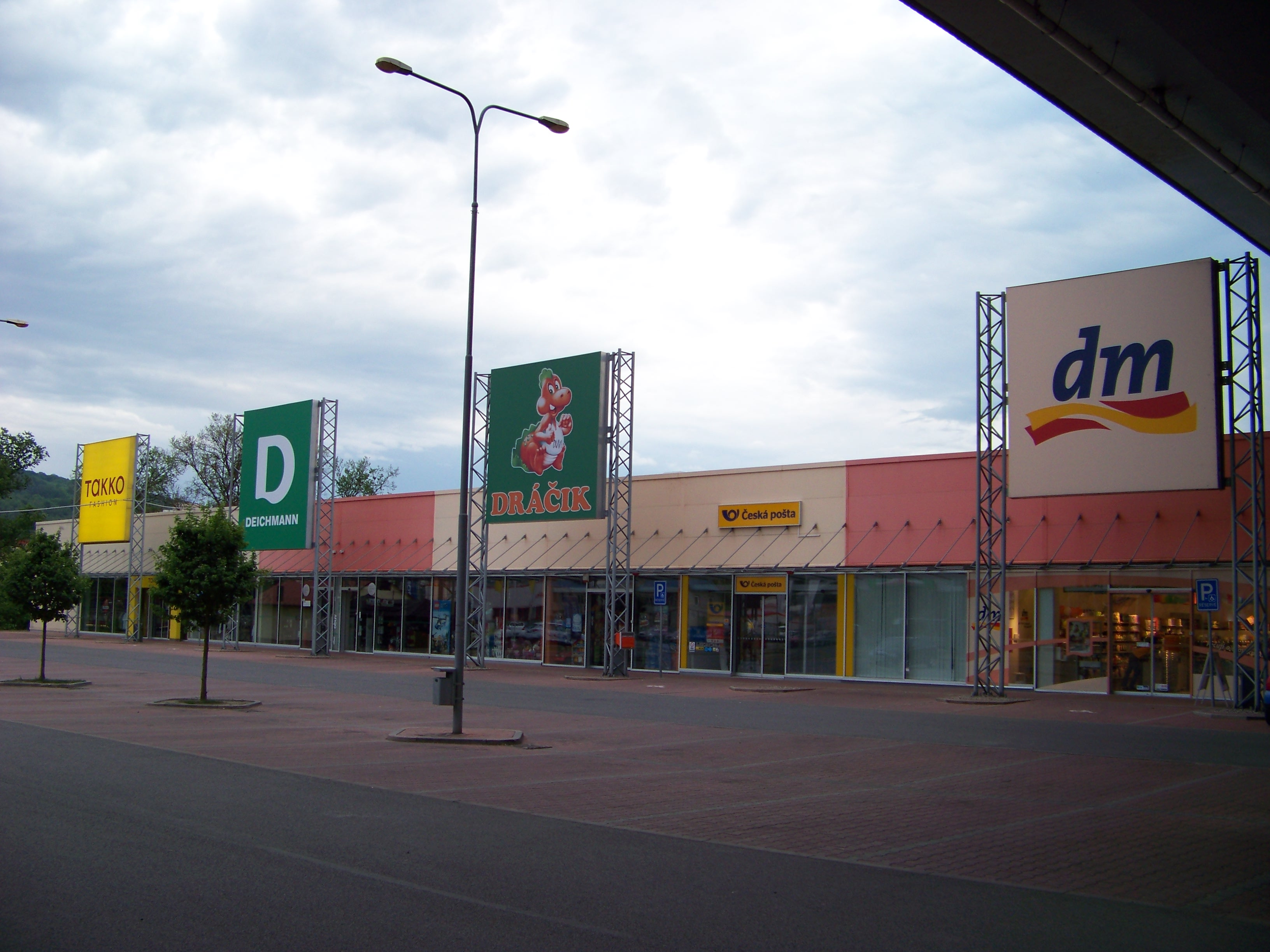 Děčín I-Děčín, Děčín District, Ústí nad Labem Region, the Czech Republic. Oblouková 1420/2, a shopping centre.